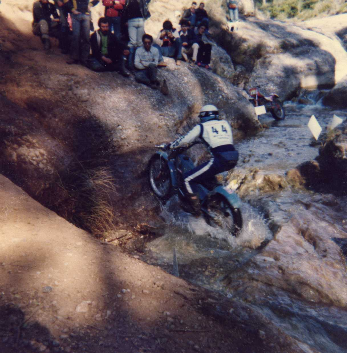 Yrjö Vesterinen with his Bultaco Sherpa T at XIII "Trial de Sant Llorenç" in Matadepera (Catalonia) on March 11, 1979. It was the 5th race of the Trial World Championship. He finished 4th.This was the section #20, called "Zona de l'Aureli", near the spring of Carlets (Rellinars).